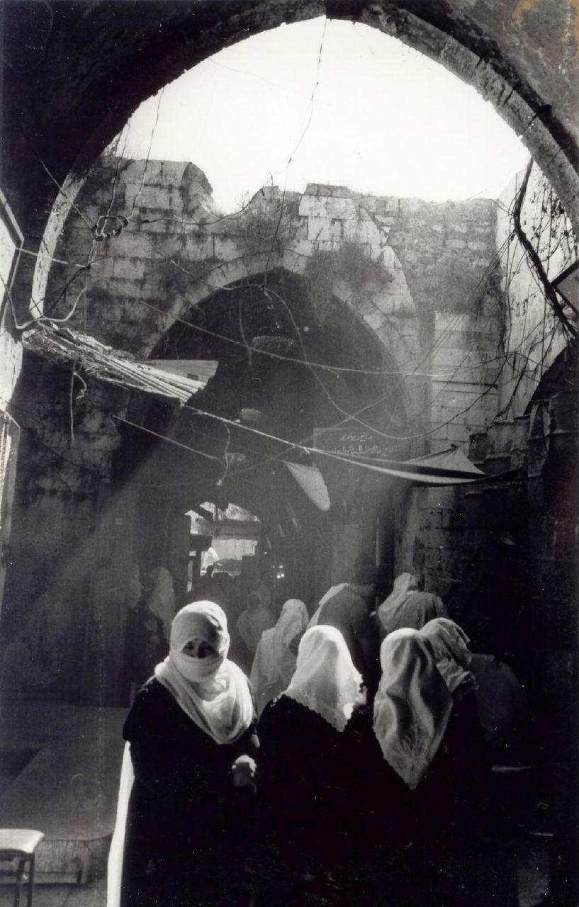 Gaza City, Palestine, in the tiny historical area called Gold Market. Undated; location and origine not verified. Gaza city suq (Palestine)